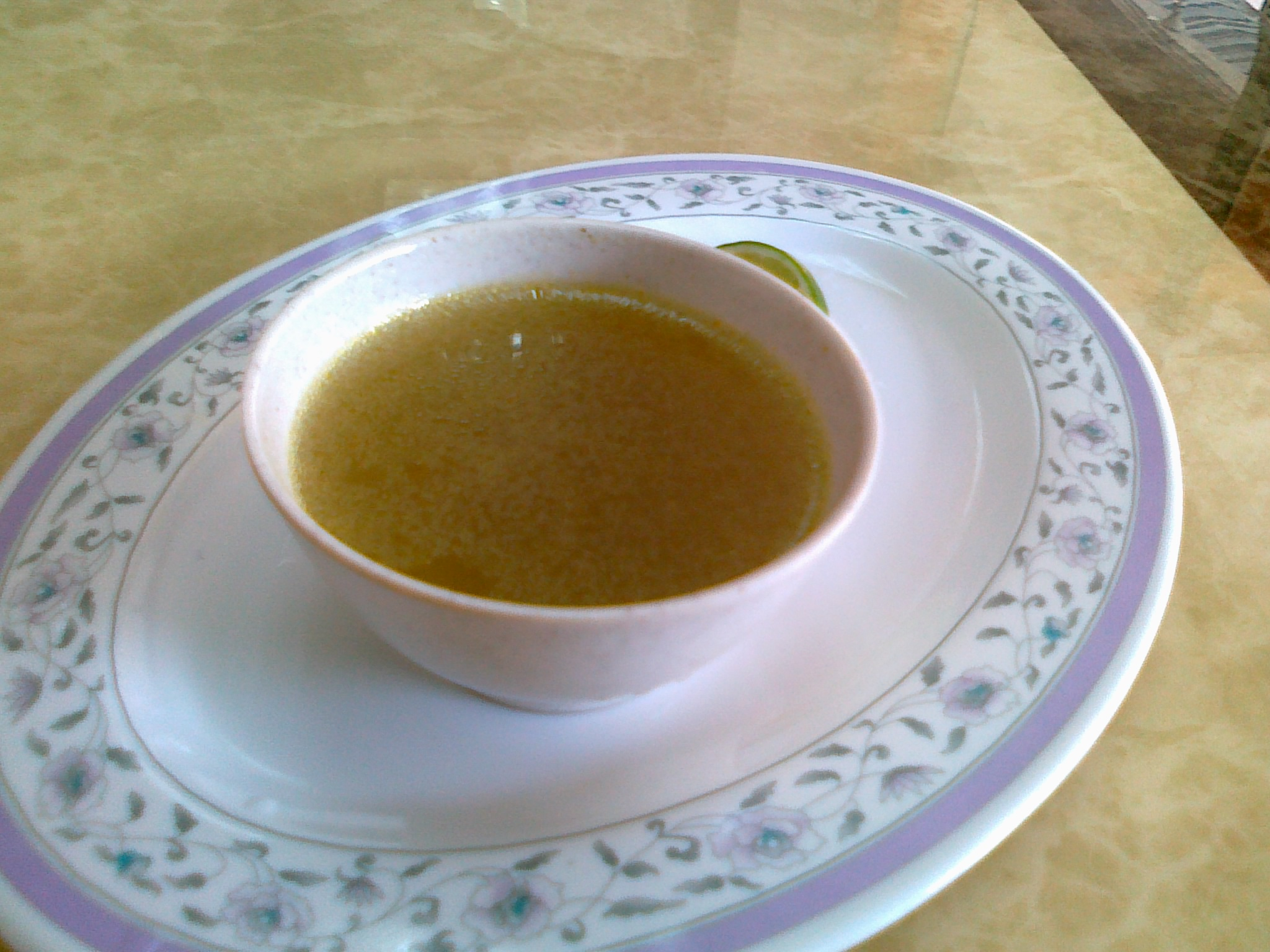 Chicken soup